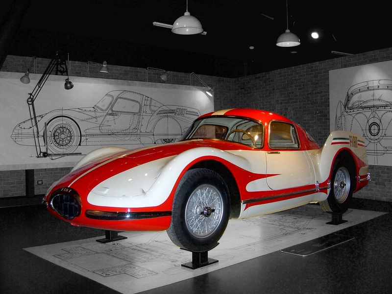 one Fiat Turbina con technical drawing